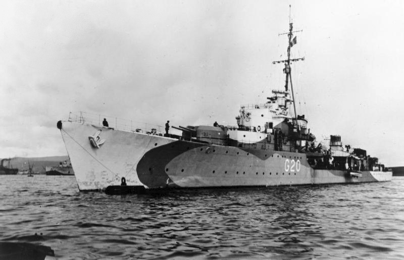 Photograph of British S class destroyer HMS Savage (G20).